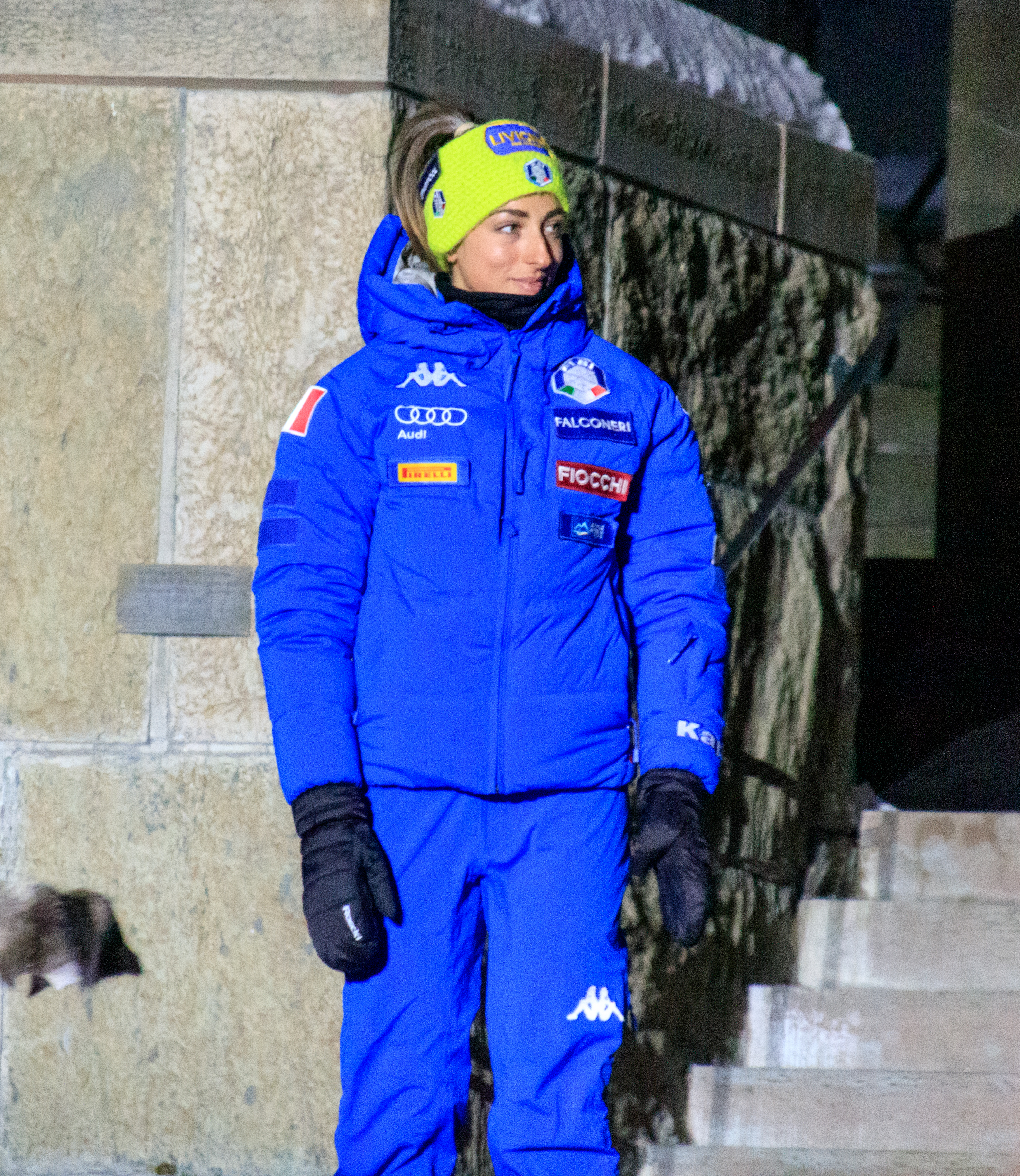 Lisa Vittozzi at the medalcermoni after 15 km individual at World Championschip in Östersund 2019